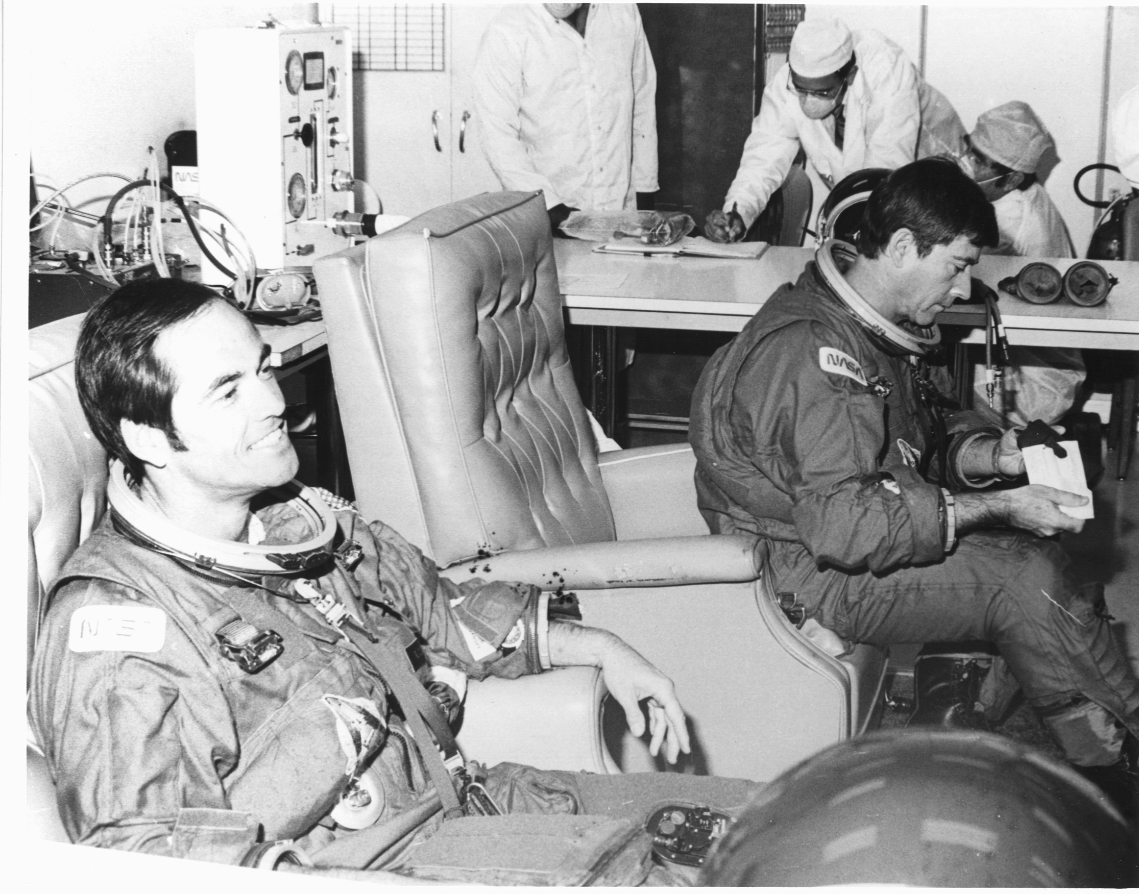 Astronauts John Young and Robert Crippen during suit-up operations at O&C Bldg.